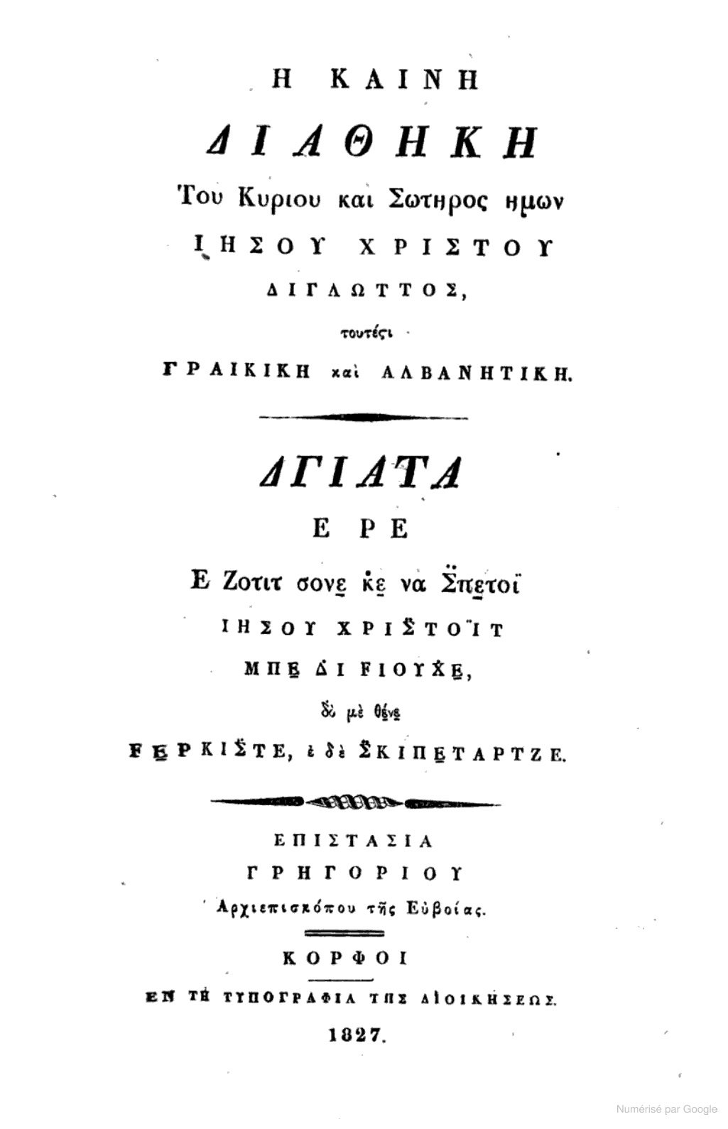 Bilingual New Testament in Greek and Albanian, translated by Gregorios Argyrokastritis Bishop of Euboia, later Gregorios IV of Athens.